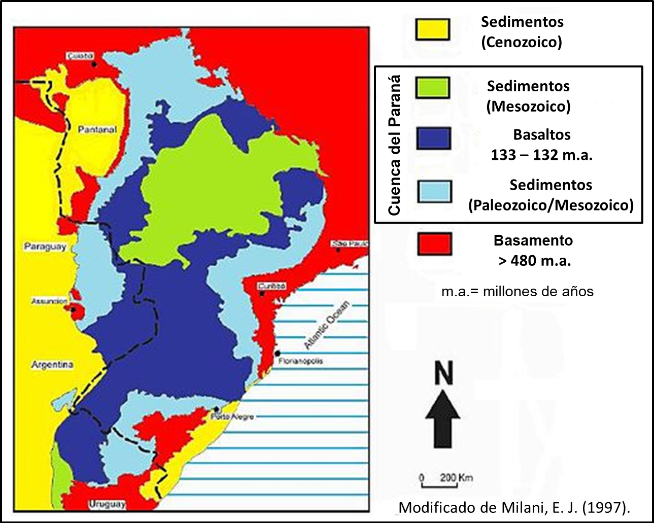 Paraná Basin: Simplified Geological Map